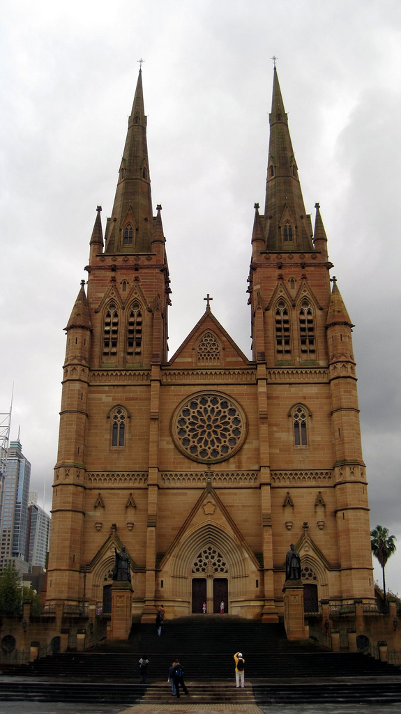 St Mary's Cathedral, Sydney After years of restoration finally I could see it finished